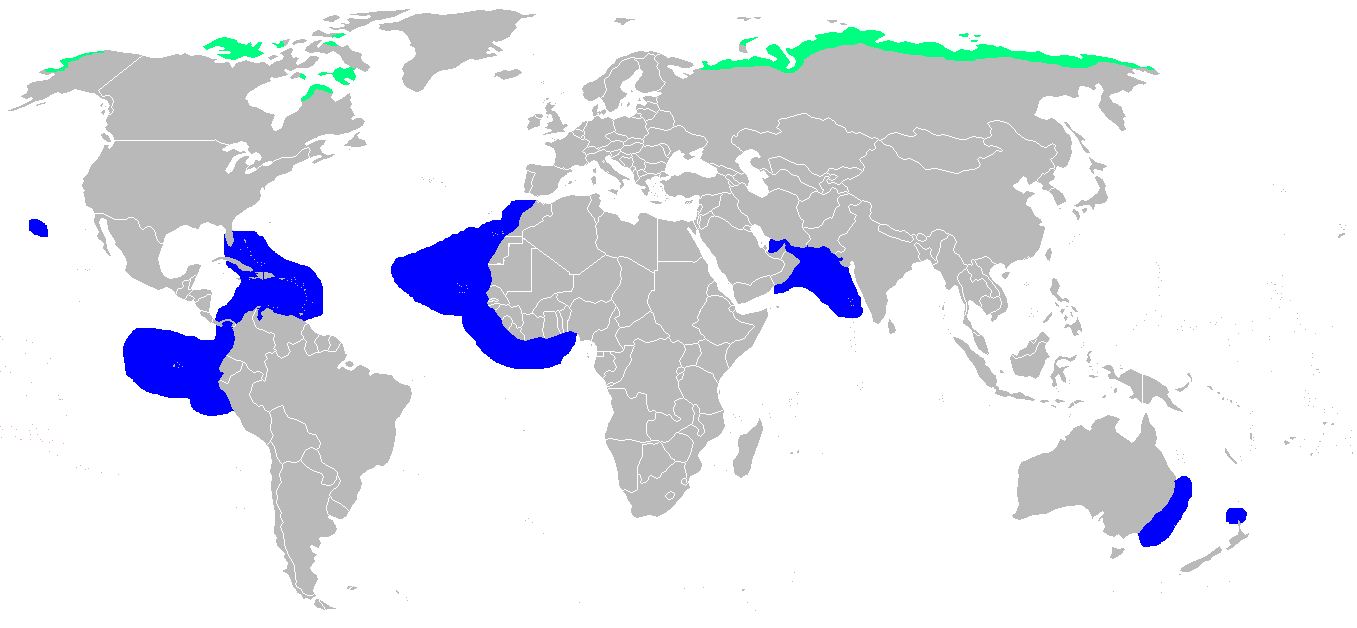 Spatelraubmöwe (Stercorarius pomarinus), area. green: breeding, blue: main wintering areas